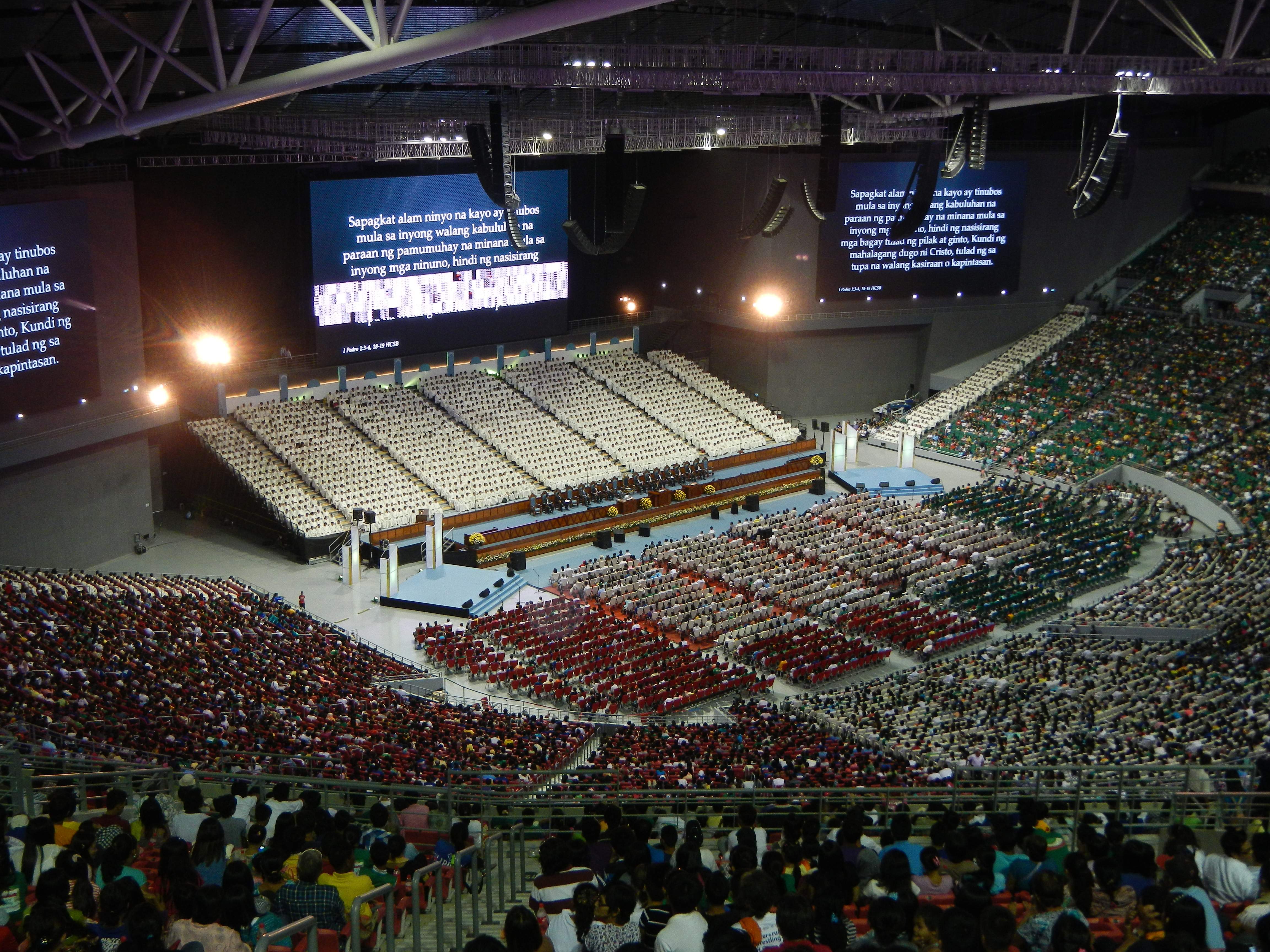 Lingap Pamamahayag sa Mamamayan Medical, Dental Mission of November 8, 2014 - Philippine Arena beside the Philippine Sports Stadium of the, and located in and part of the - Ciudad de Victoria, Iglesia Ni Cristo - 140-hectare tourism enterprise zone in Barangays Duhat, Igulot, Bolacan of Bocaue, Bulacan and Tabing Bakod or Santo Tomas and Mahabang Parang of Santa Maria, Bulacan - including therein being constructed are New Era University, New Era University Bocaue Campus & Eraño G. Manalo (EGM) Medical Center, an 11-storey modern hospital with 1000-bed capacity.